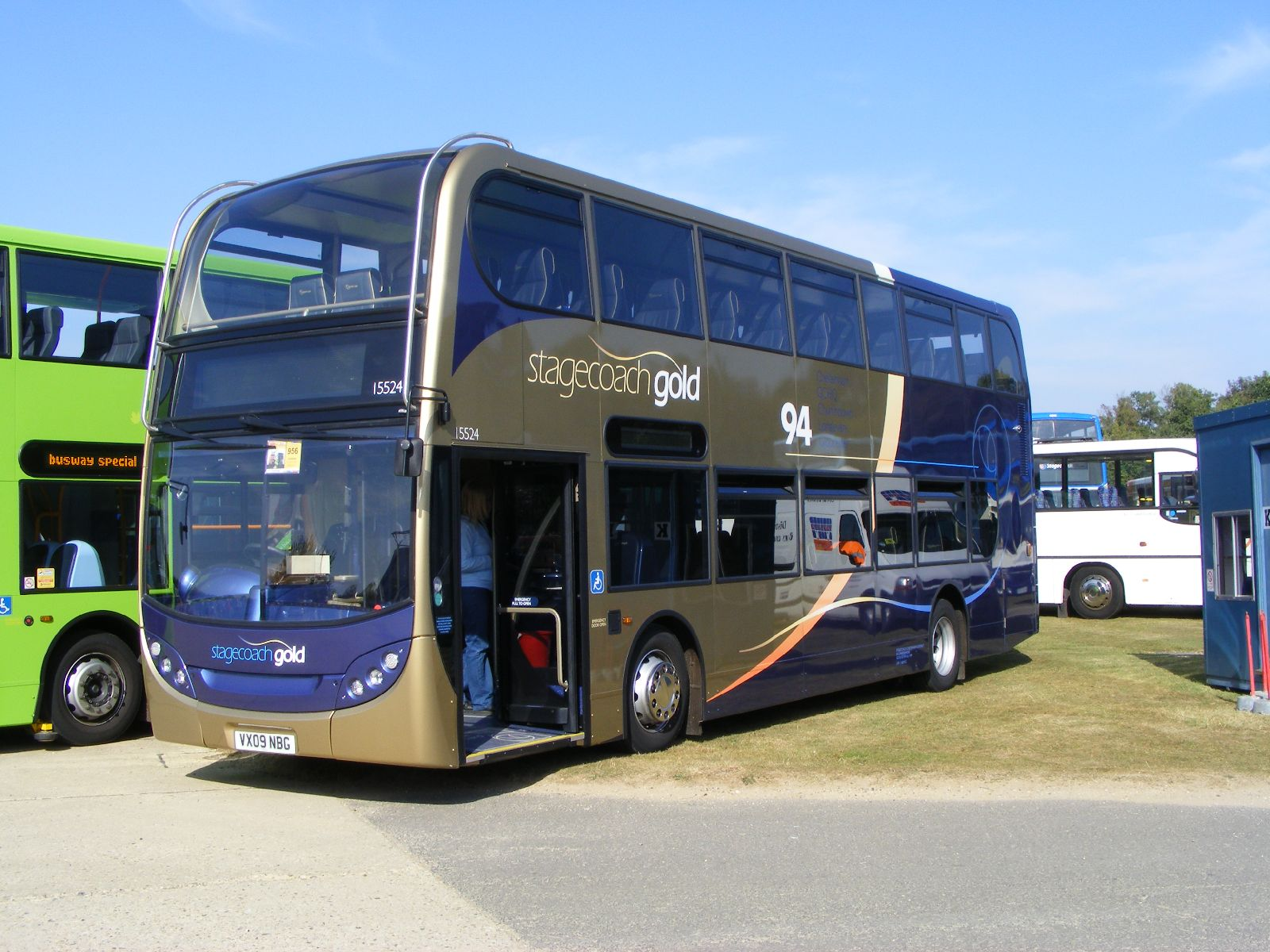 Stagecoach Cheltenham and Gloucester 15524 VX09NBG